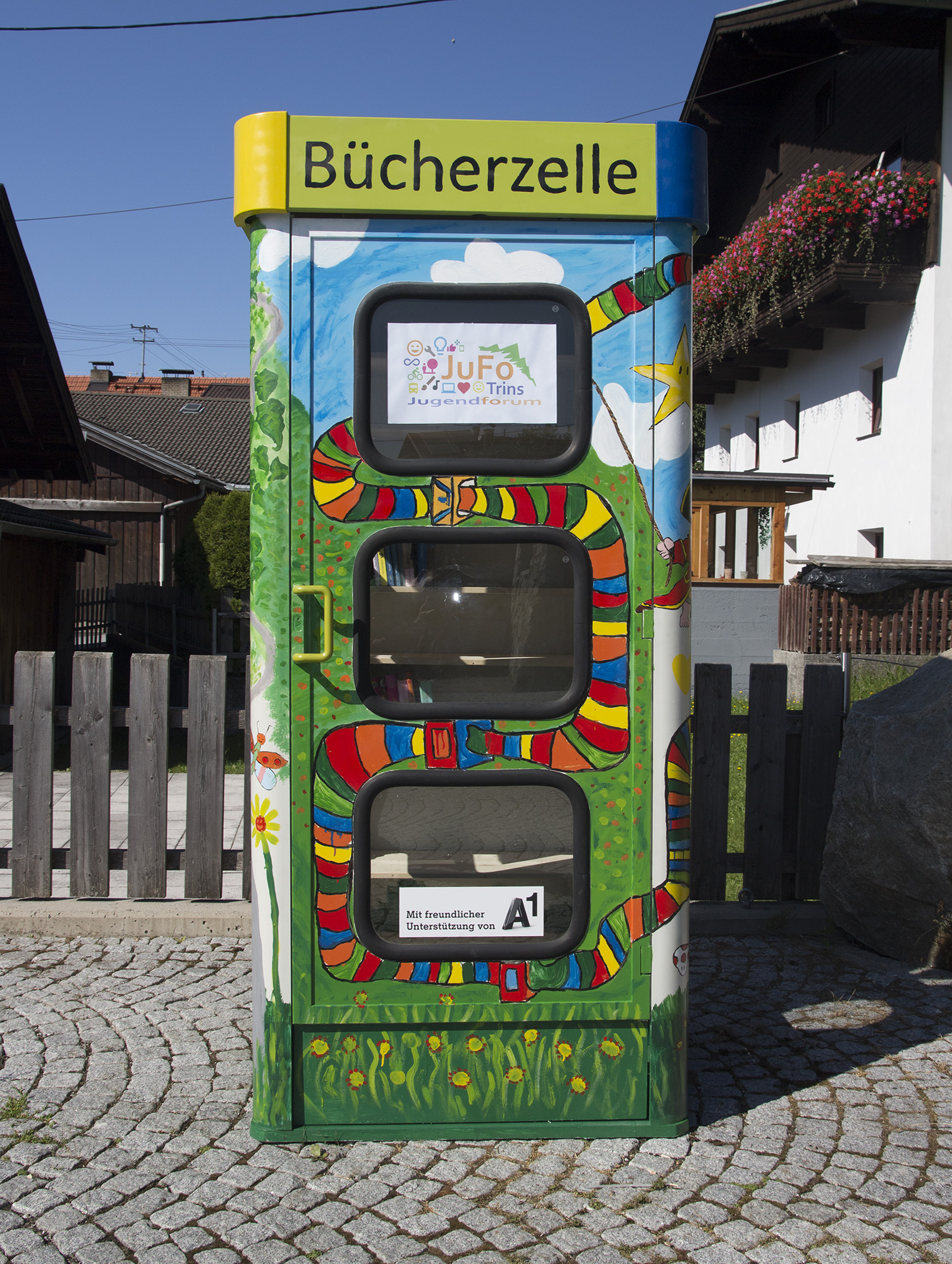 The picture shows the public bookcase at the Trinser village square